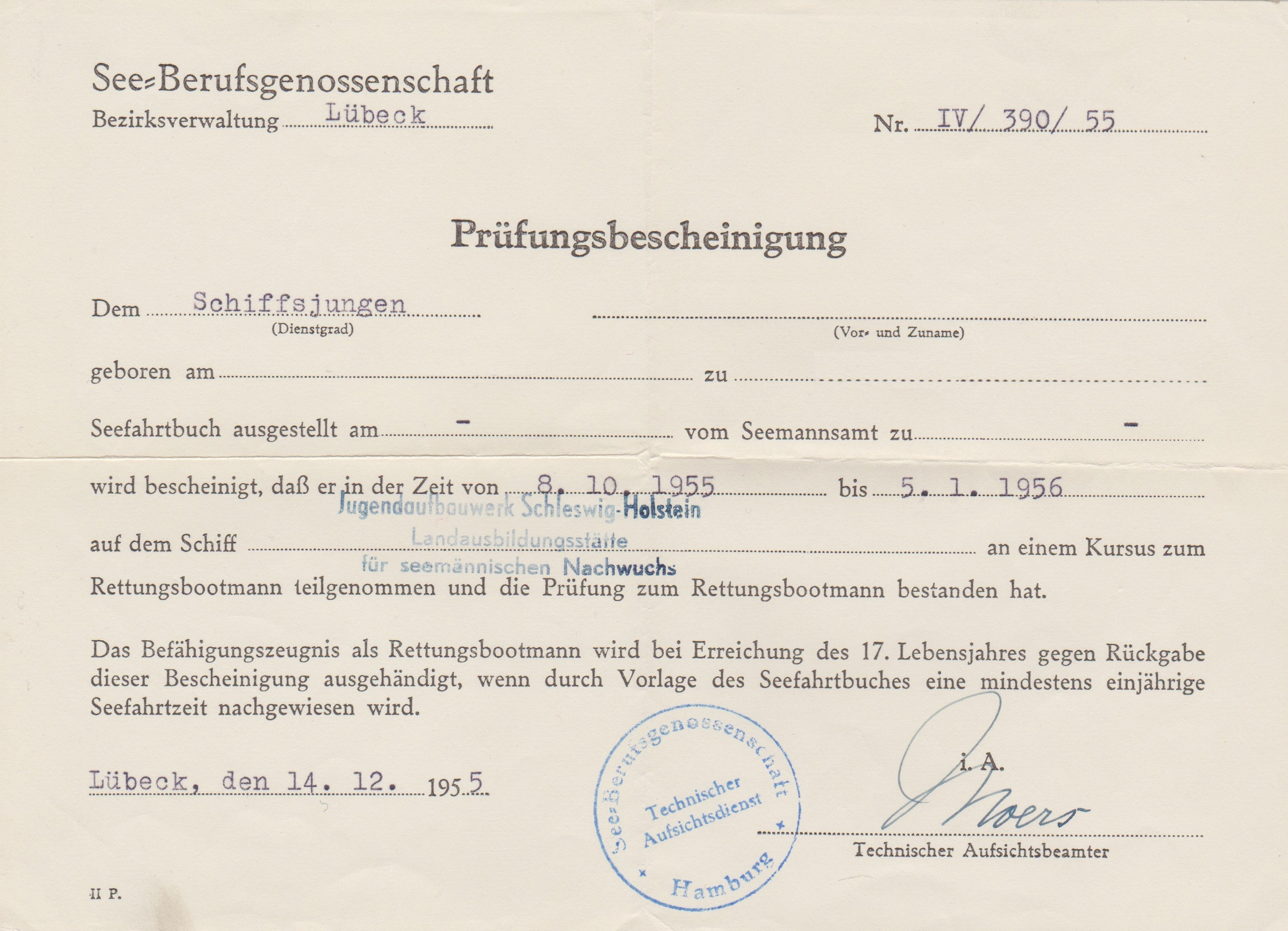 Examination certificate to the lifeboat man